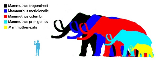 Size comparison of mammoth species.